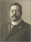 Ishibashi Tamenosuke (1871-1927)